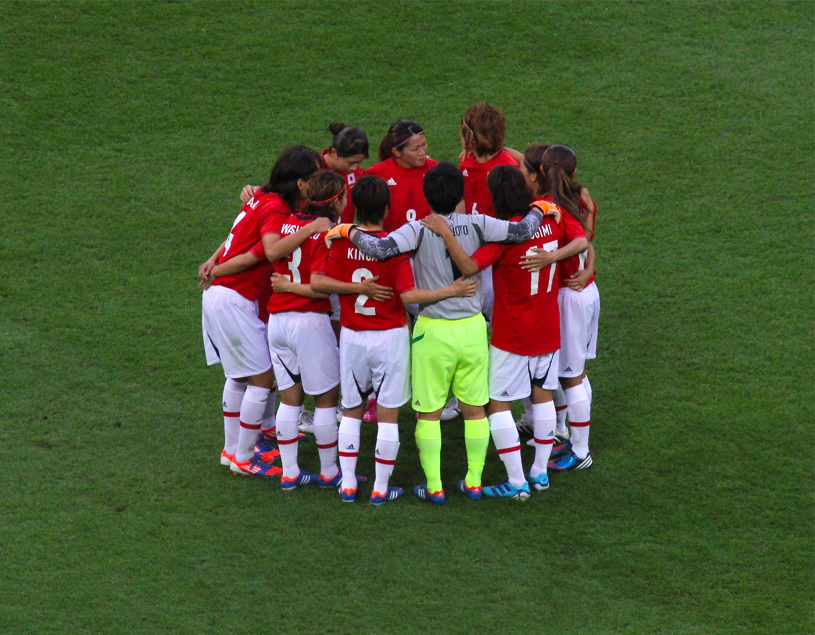 Japanese players huddle ahead of the gold medal match between Japan and United States at the 2012 Olympic Games.